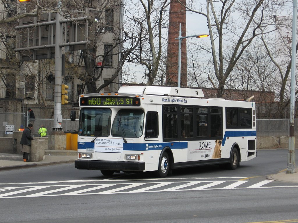 NYCTA Orion 7 hybrid #6410 coming off of the Triborough Bridge, on the M60 line.